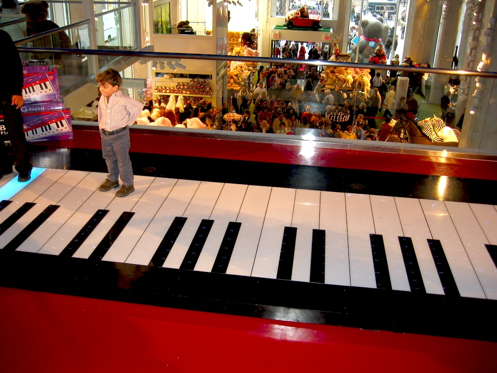 Big piano